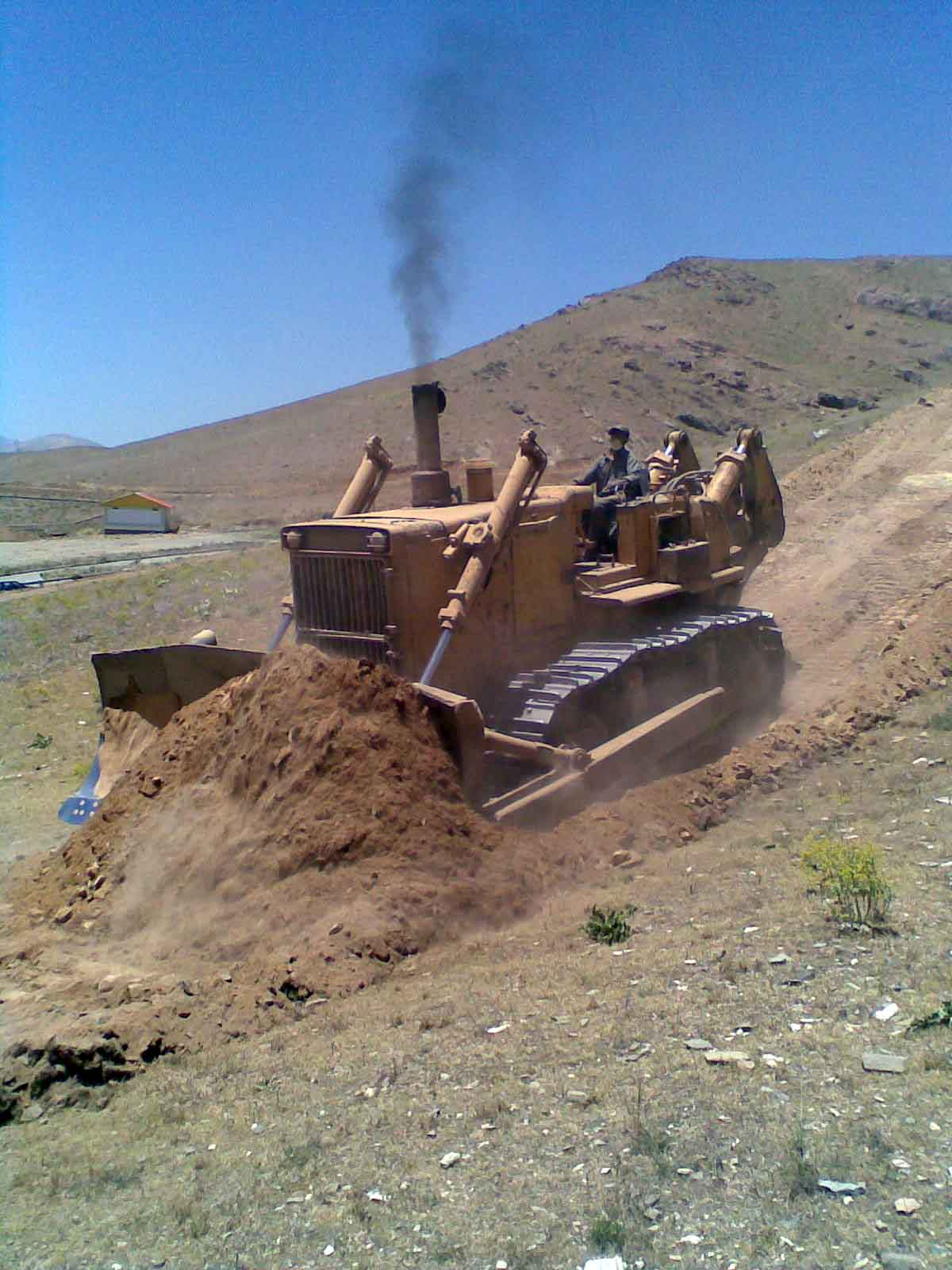 Azna A Bulldozer